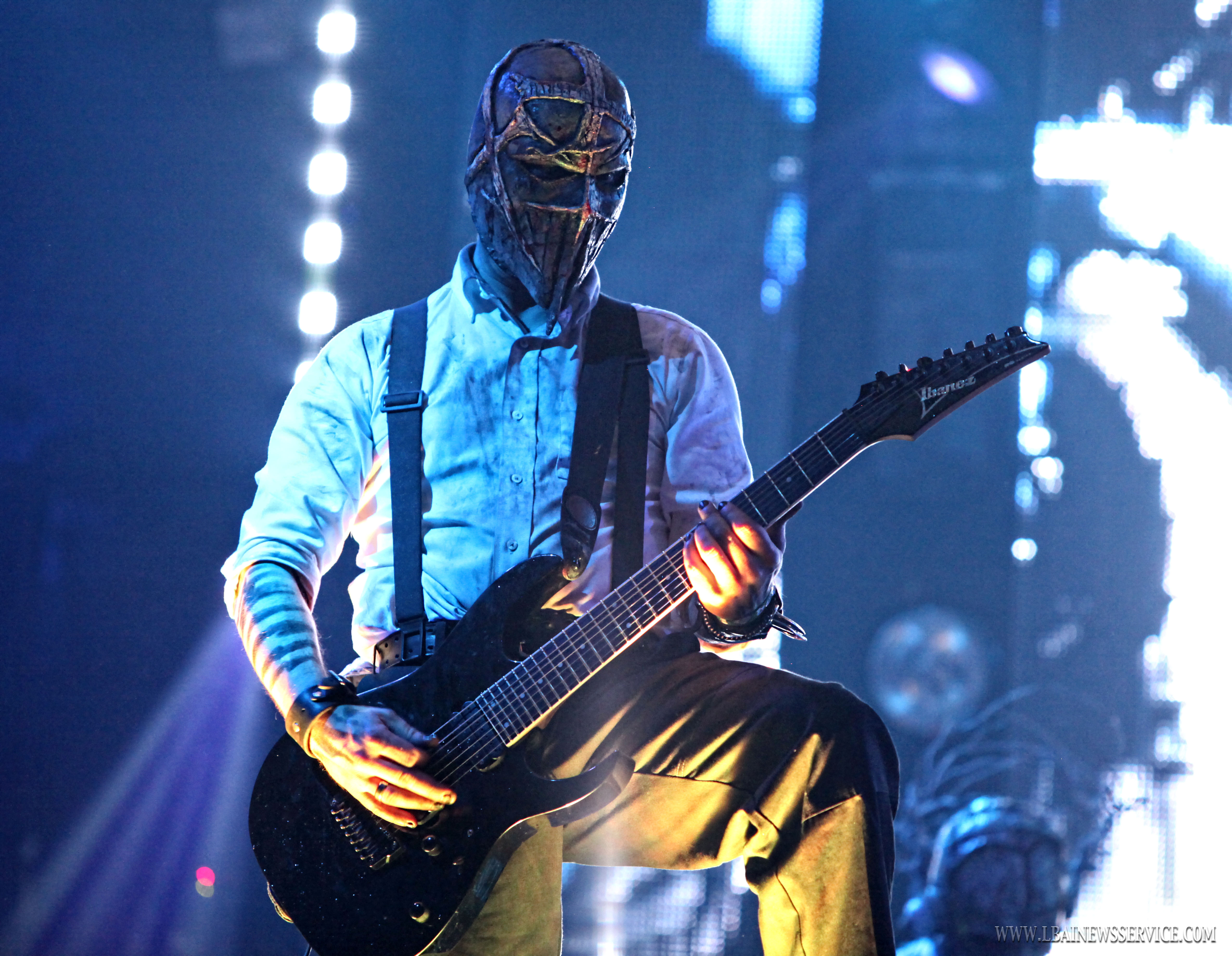 Tommy Church live with Mushroomhead in Fort Lauderdale.